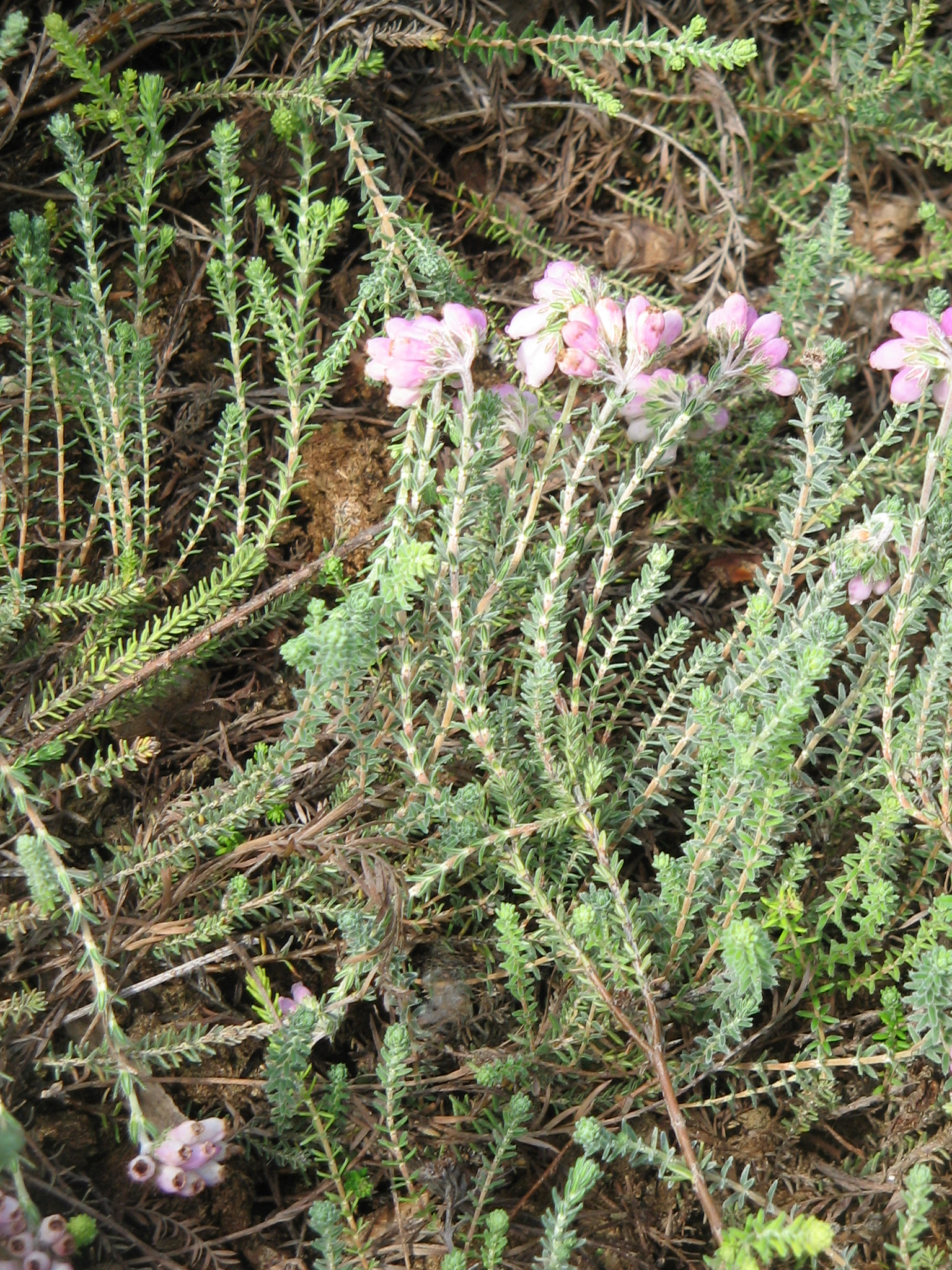 Erica tetralix